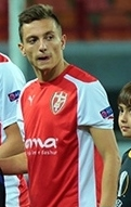 Leonit Abazi